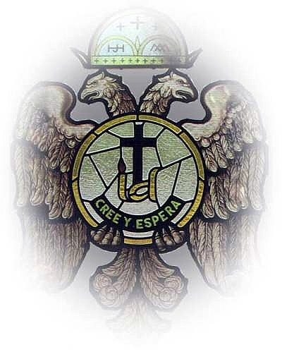 Coat of Missionaries Identes